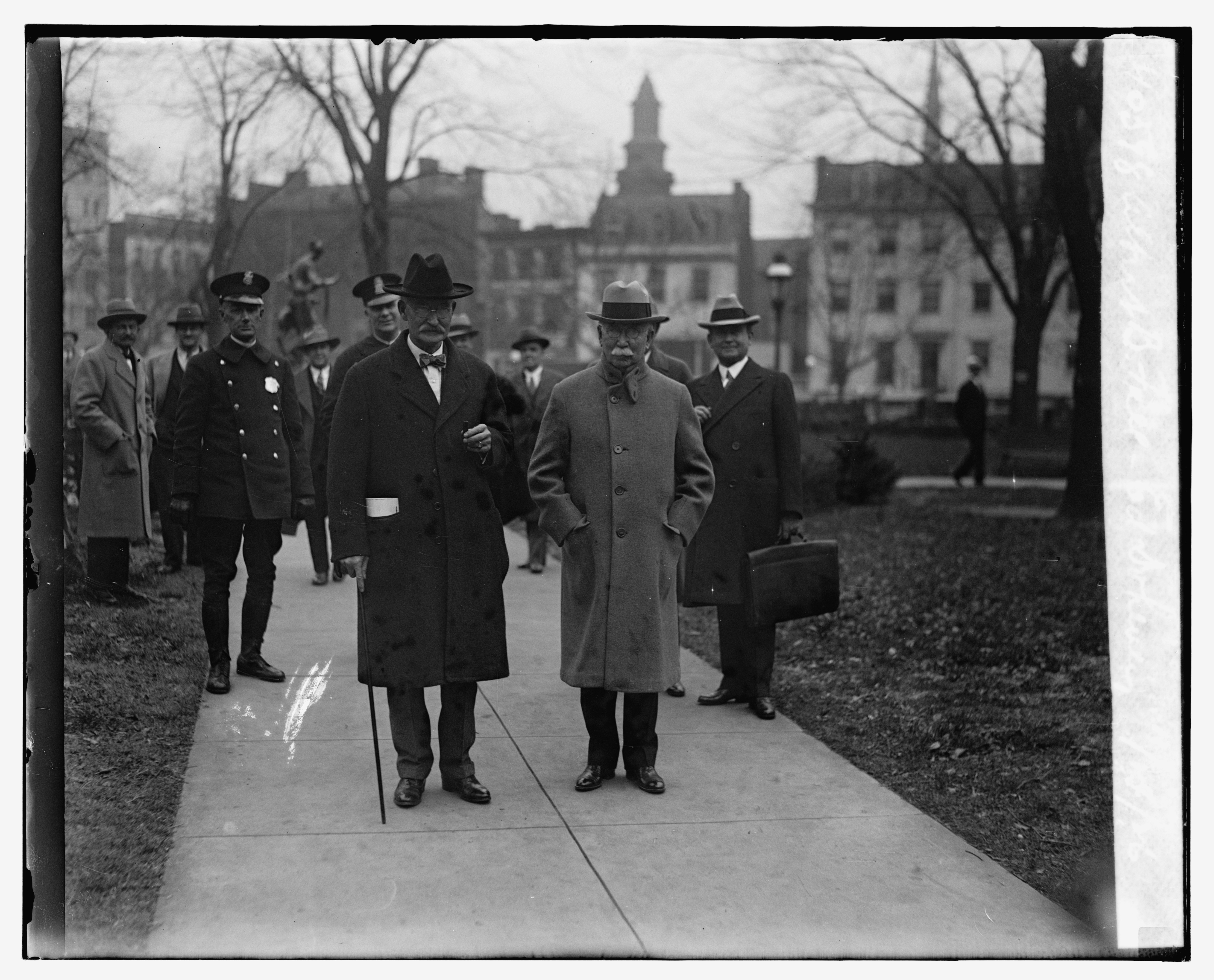 Title: Albert B. Fall, Ed Doheny, 11/24/26 Abstract/medium: 1 negative : glass ; 4 x 5 in. or smaller